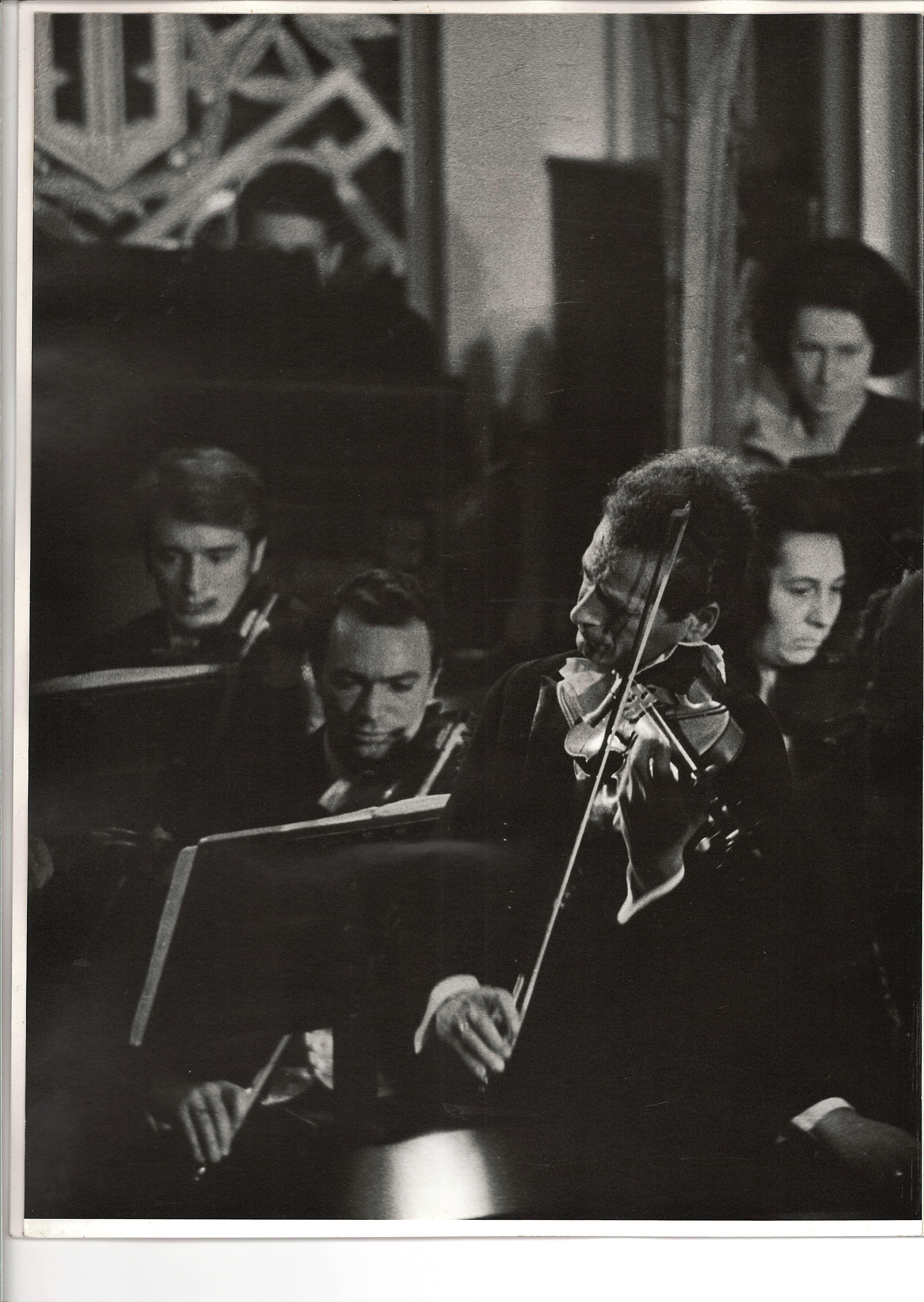 Stefan Ruha (1931-2004) a Hungarian violinist and chamber musician from Transylvania